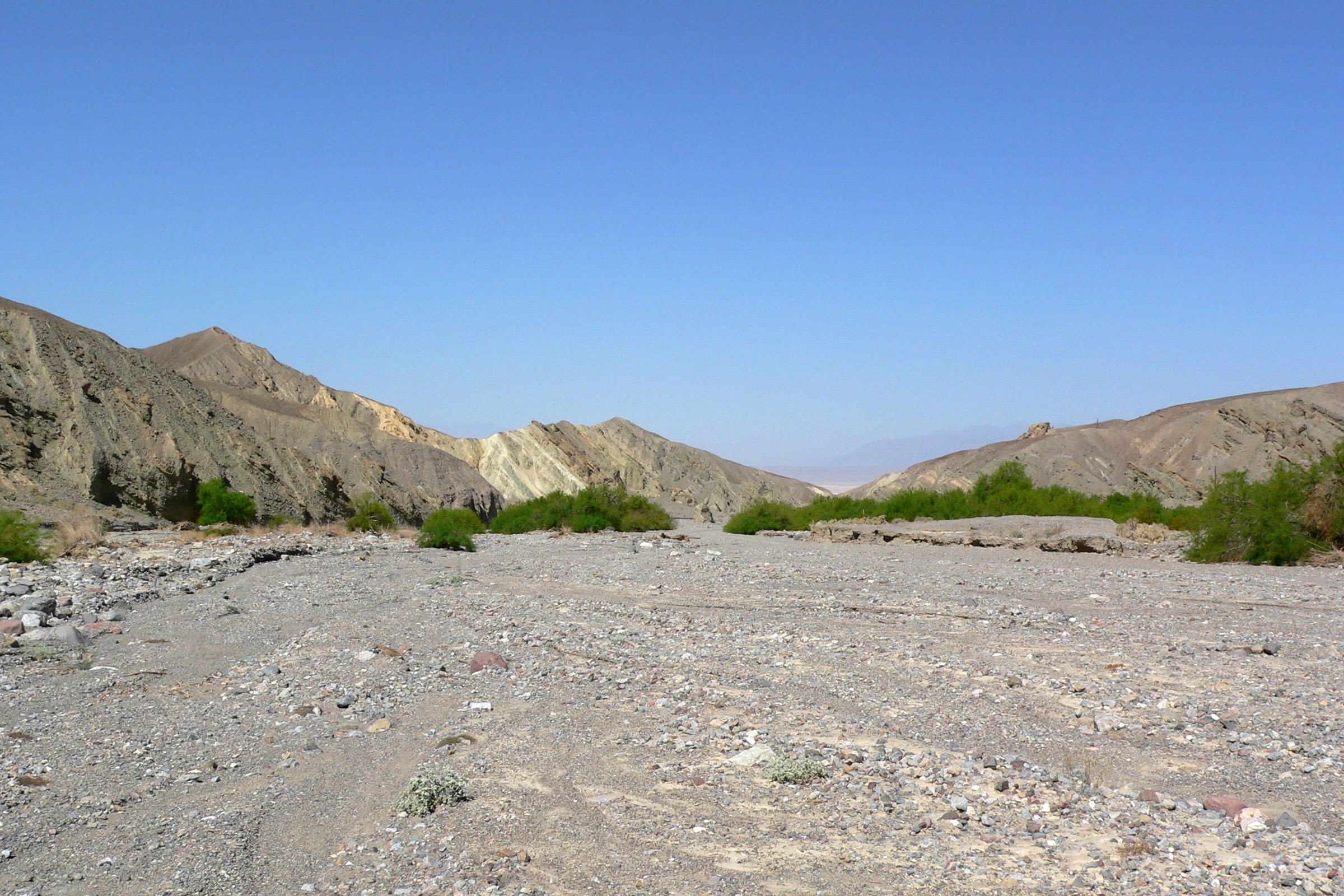 Furnace Creek Wash, Death Valley, California